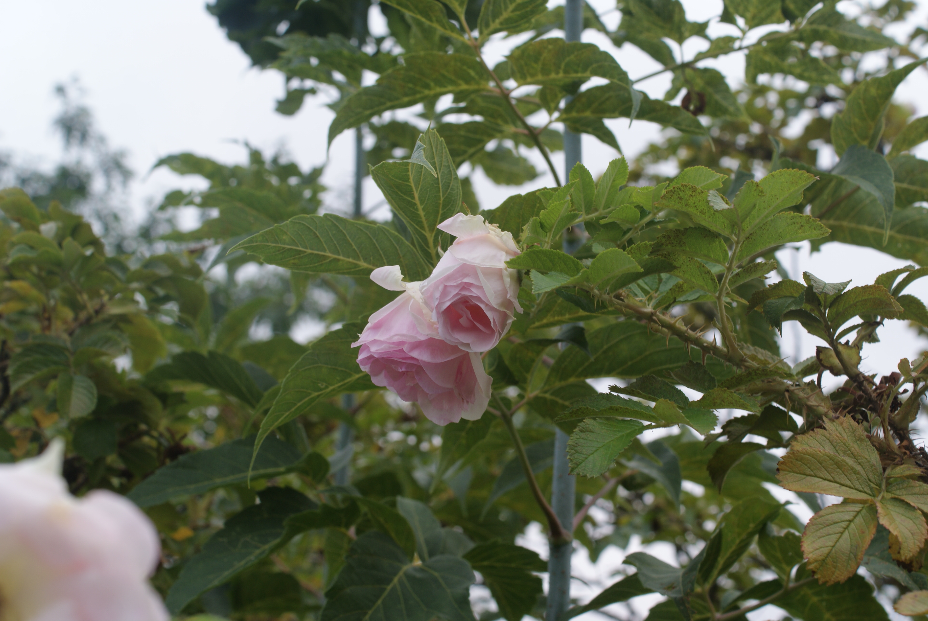 Rosa 'Ritausma' in the Botanical garden, Minsk